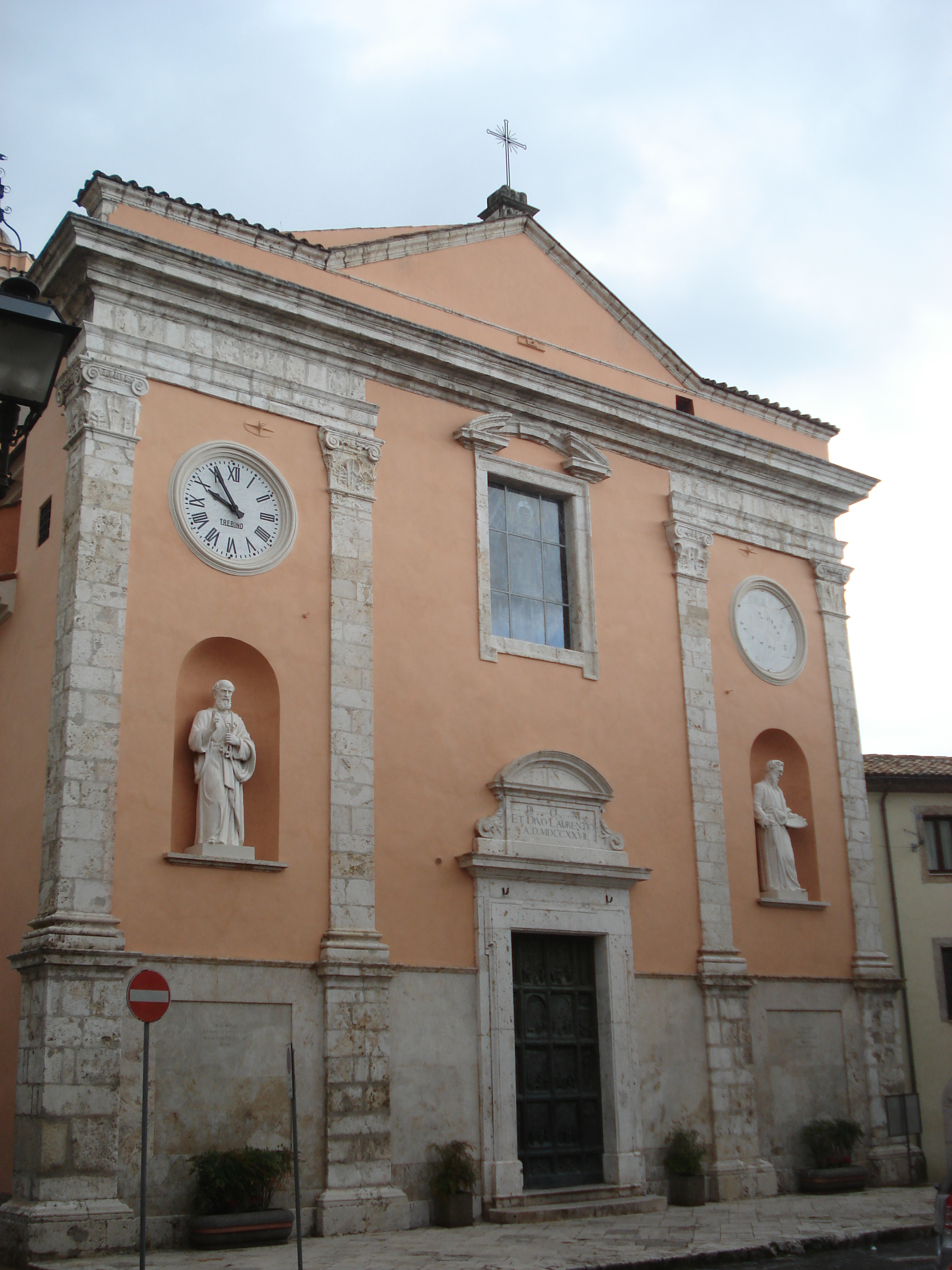 Facade of San Lorenzo church, in , Italy